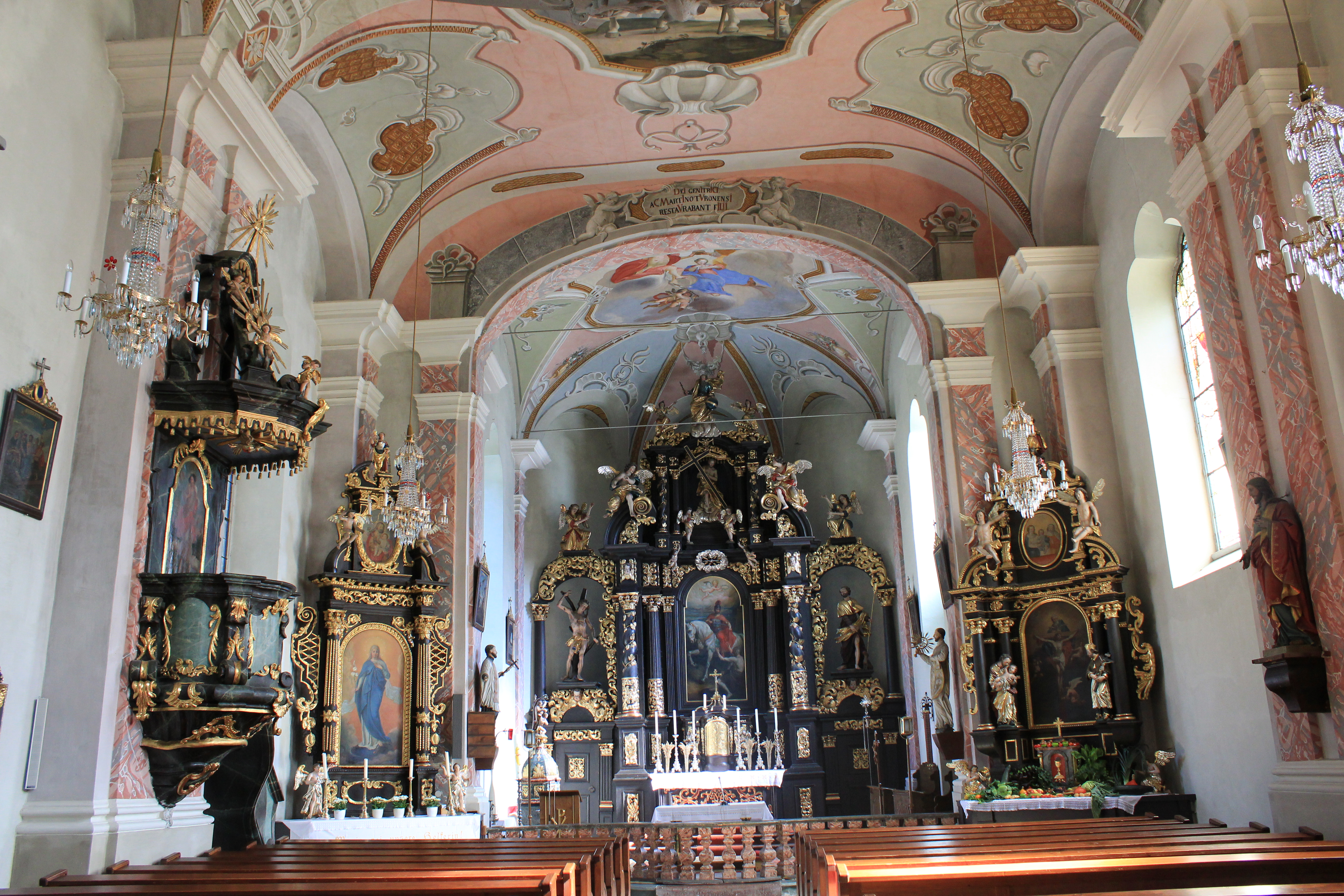 Parish church of Kirchbach